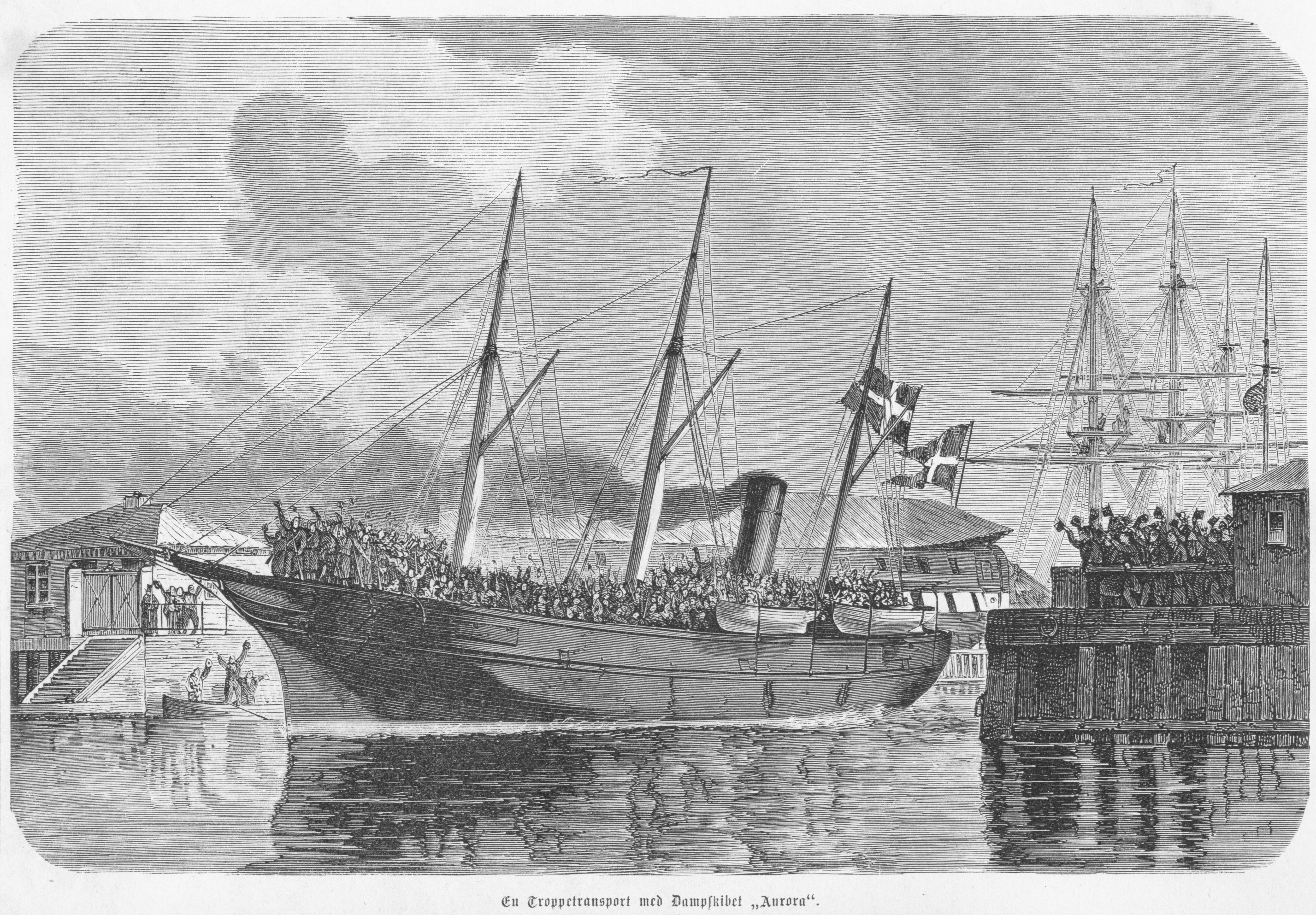 A (Danish) troop transport with the steamship "Aurora" (30 November 1863). Contemporary illustration of the 1864 German-Danish War.